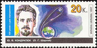 Stamp of Ukraine